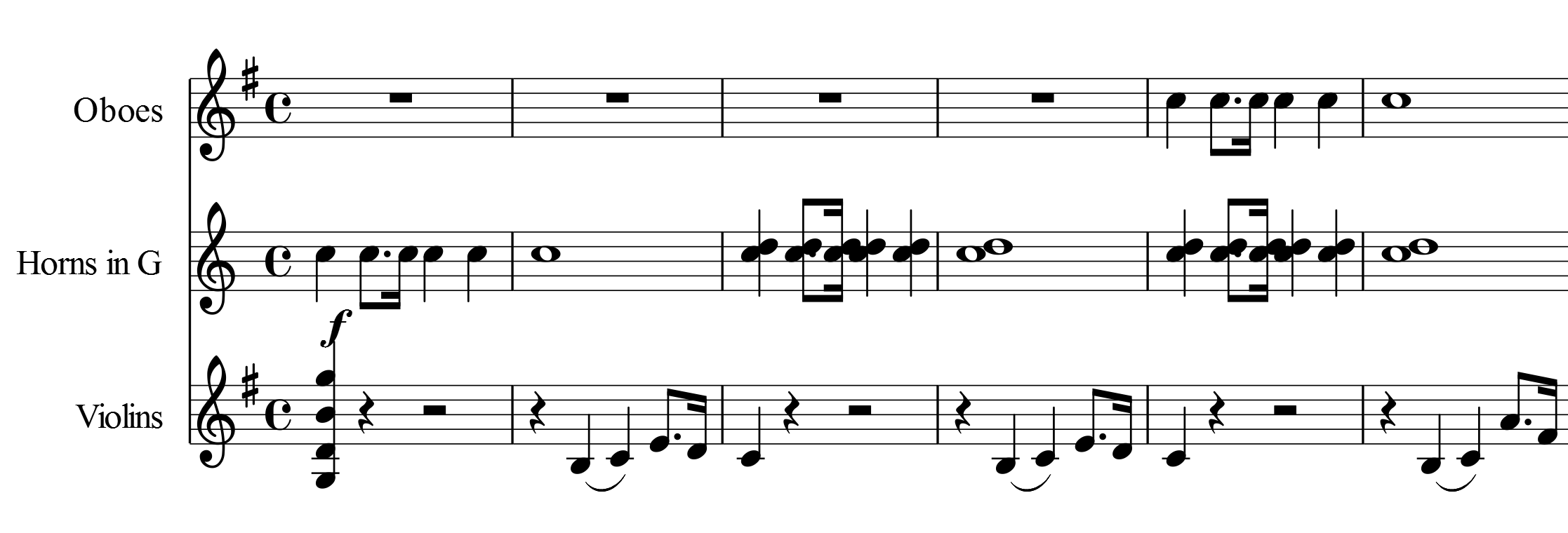 Joseph Haydn, Symphony No. 47, first movement, bar 1-6